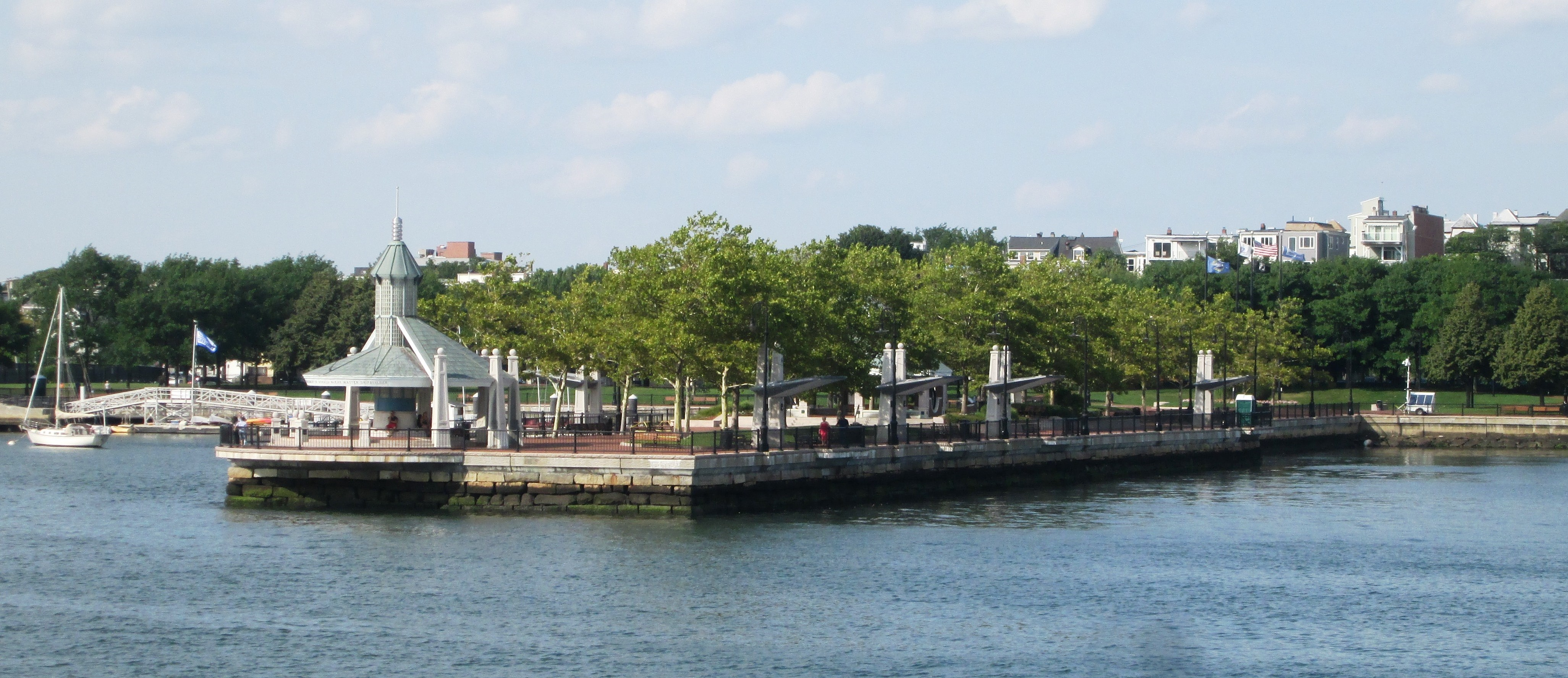 The Piers Park Sailing Center is a non-profit community sailing organization located at 95 Marginal Street in the Jeffries Point neighborhood of East Boston, Massachusetts. Piers Park was constructed by the Massachusetts Port Authority in 1995 to allow residents access to the waterfront. It was designed by Pressley Associates Landscape Architects, incorporating historic seawalls dating from 1870, and the sailing center was constructed shortly thereafter, but its sailing programs did not begin until 1997. The sailing center utilizes Boston Harbor and offers programs for a variety of ages and skill levels. The center retains the property through an extended $1 lease from MassPort, who also donated the sailing center's fleet of ten 23-foot Sonar keelboats.